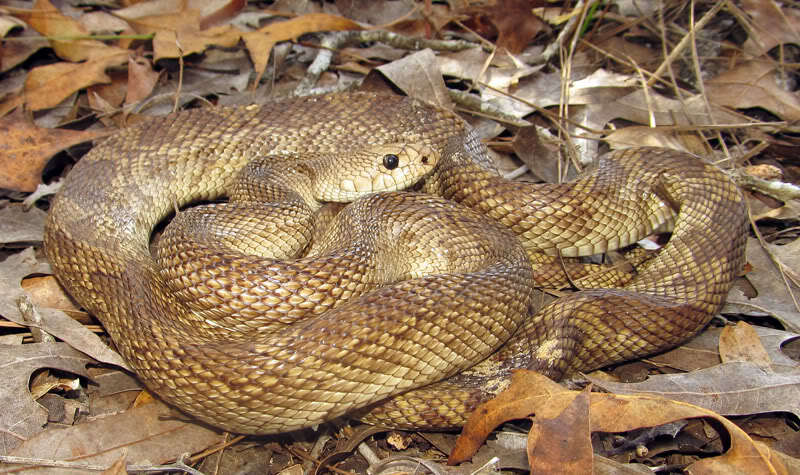 Florida Pine Snake, Hernando County Florida